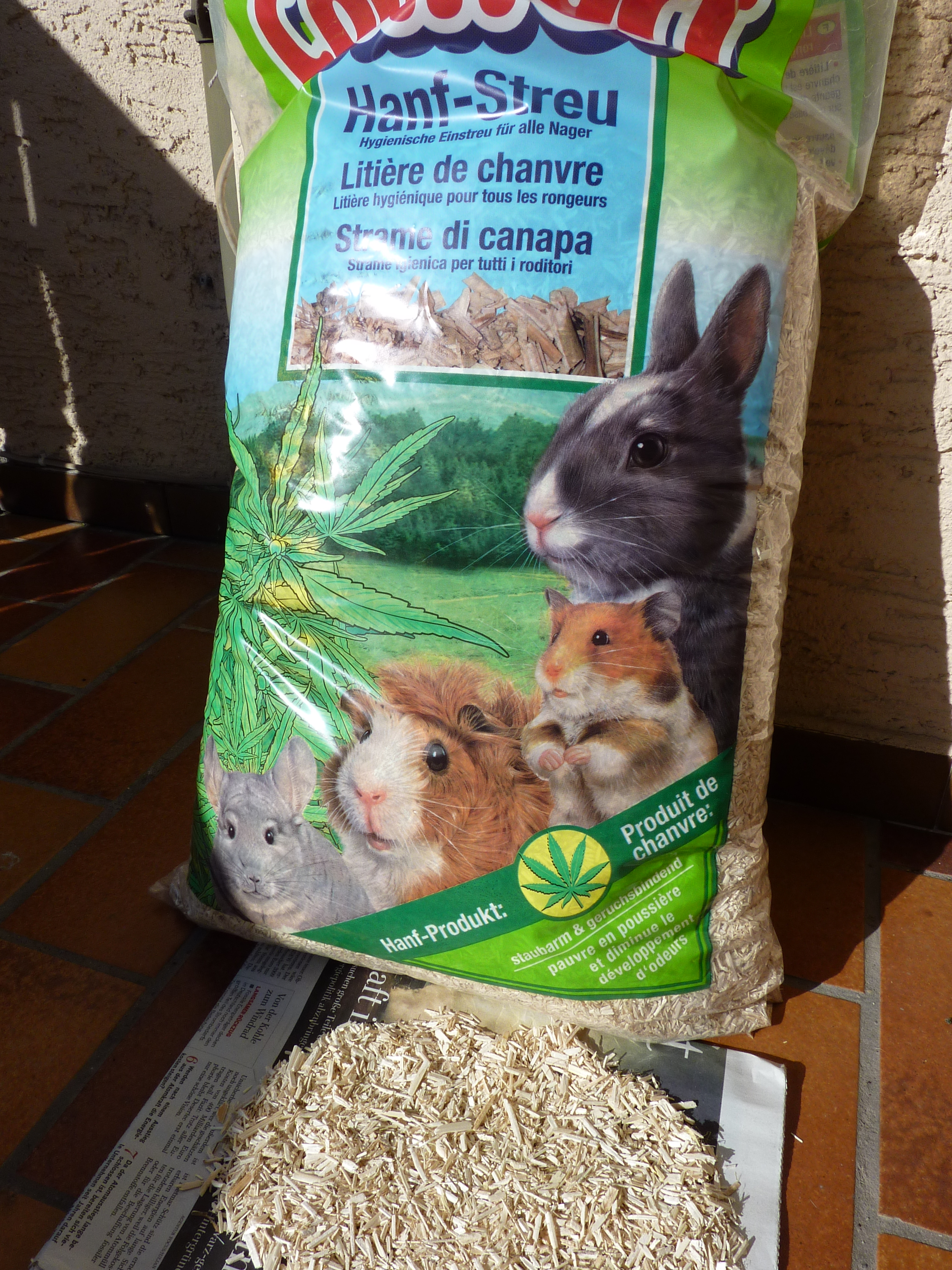 Hemp Straw for rodents